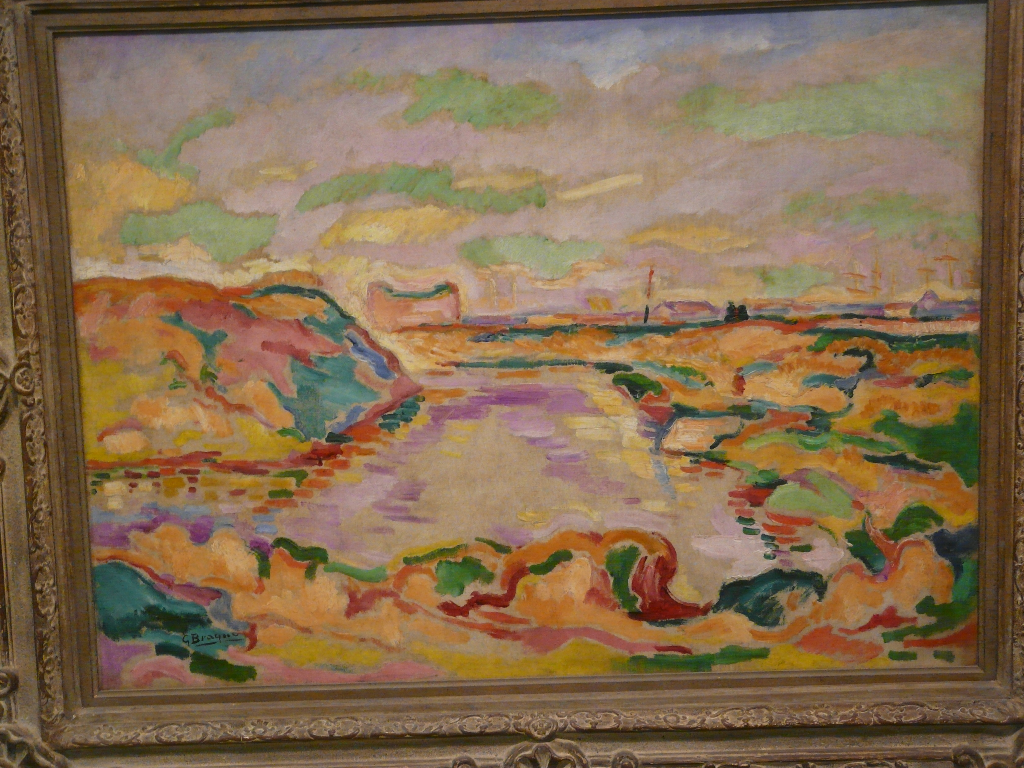 Landscape near Antwerp by Georges Braque, 1906